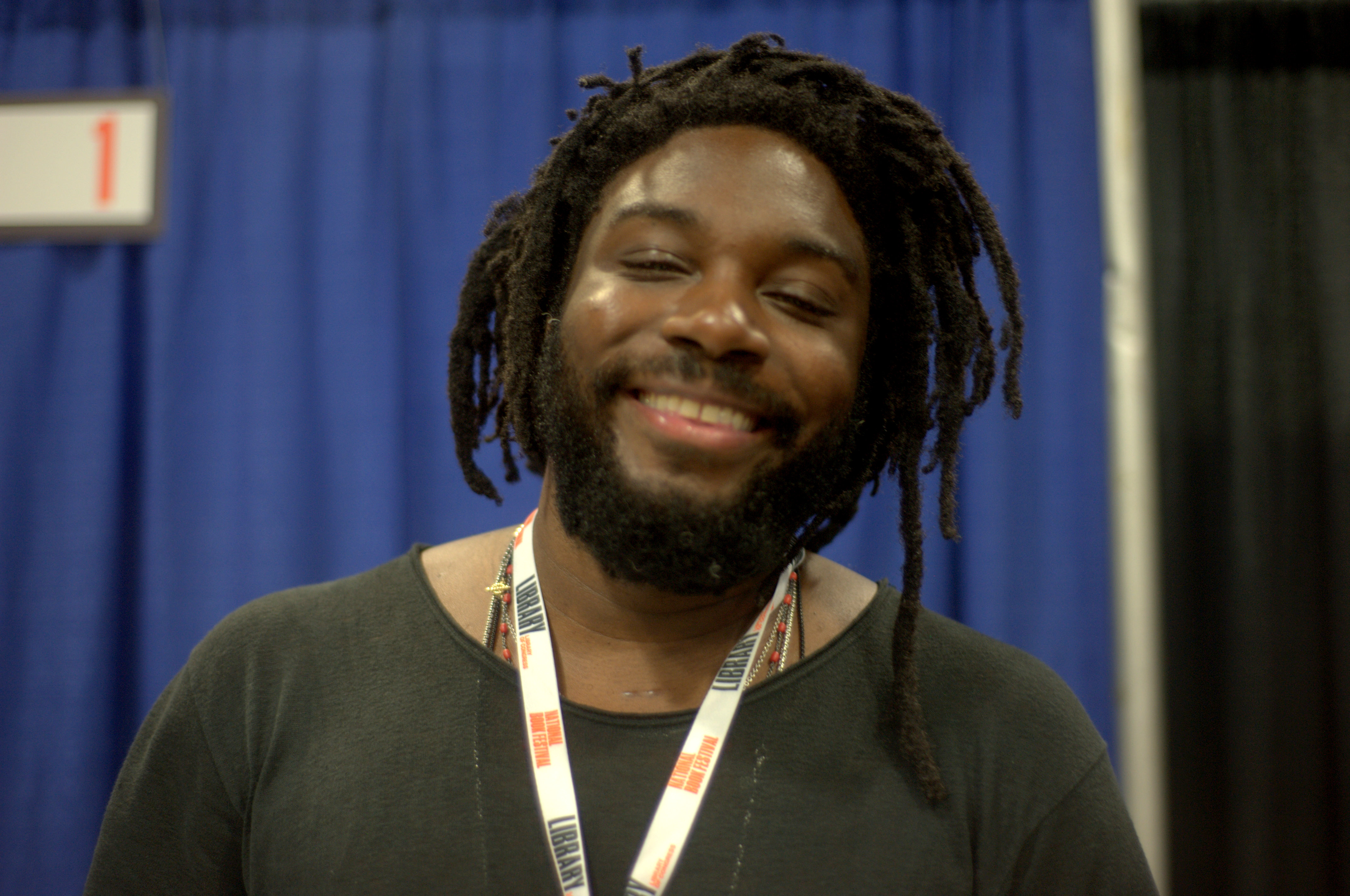 2018 National Book Festival